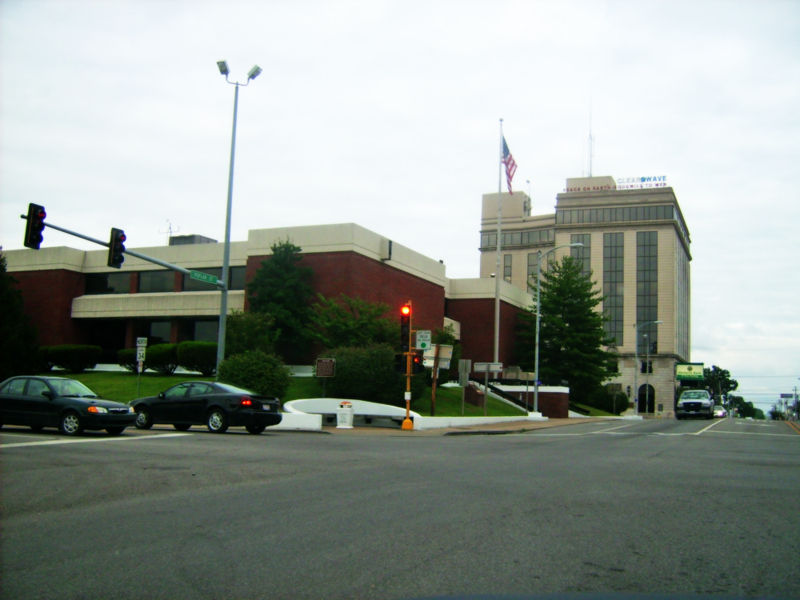 I created this picture Ruhe1986 02:37, 31 August 2006 (UTC) Harrisburg CourtHouse and bank Category:Images of Harrisburg, Illinois